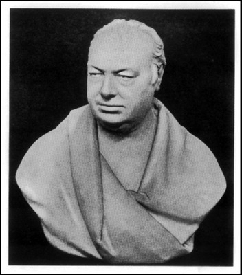 (PD by age)